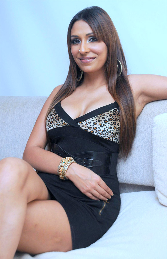 Pooja Missra at a party hosted by Sanjay Bedia